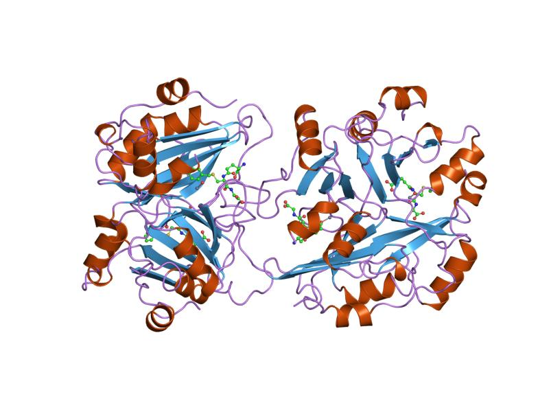 Cartoon representation of the molecular structure of protein registered with 1fro code.